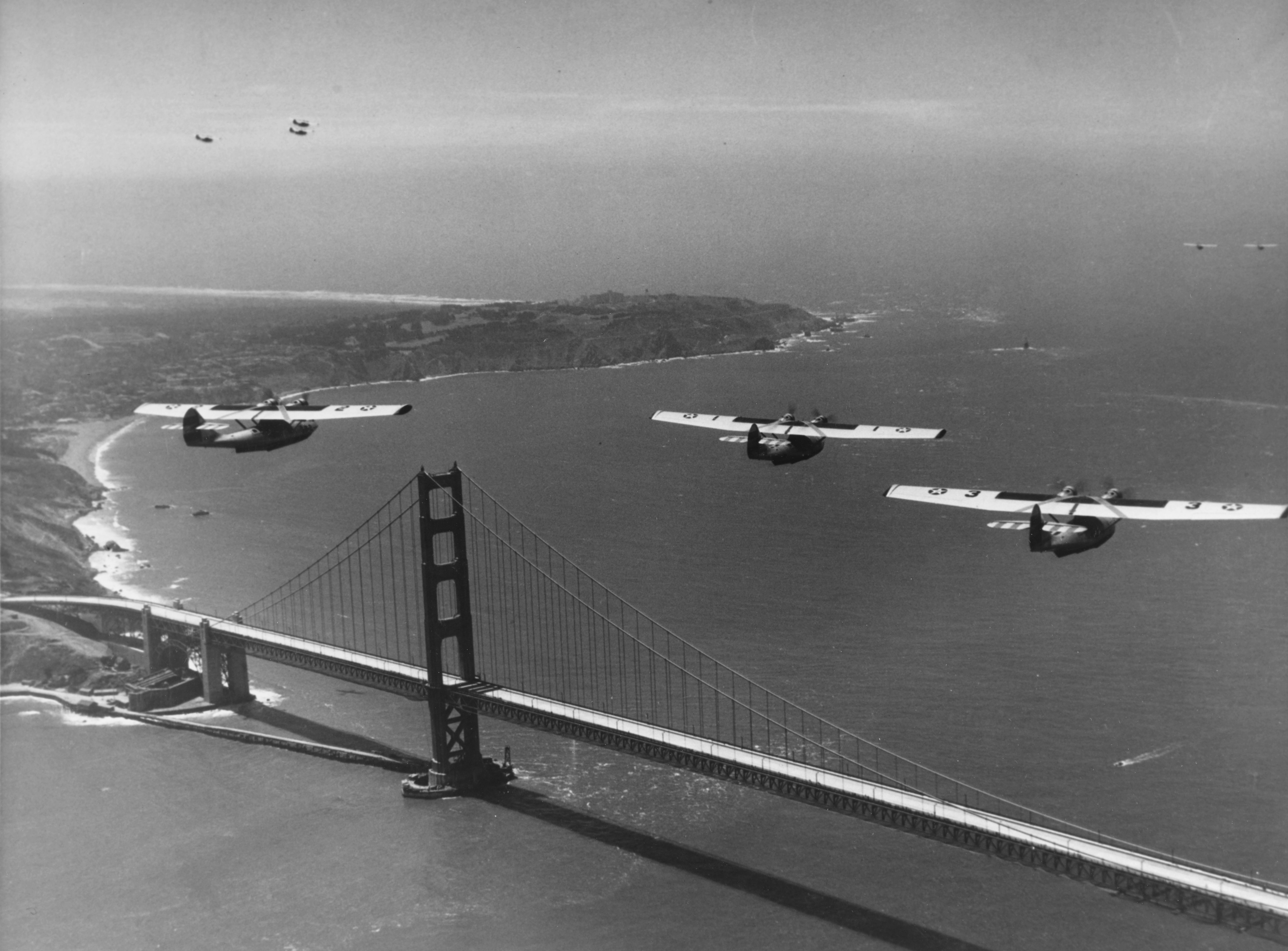 U.S. Navy Consolidated PBY-1 Catalinas from Patrol Sqiadron 9 (VP-9) fly in formation over the southern end of the Golden Gate Bridge, San Francisco, California (USA), in May 1937. Two other three-plane sections are in the distance. Note lack of traffic on bridge.